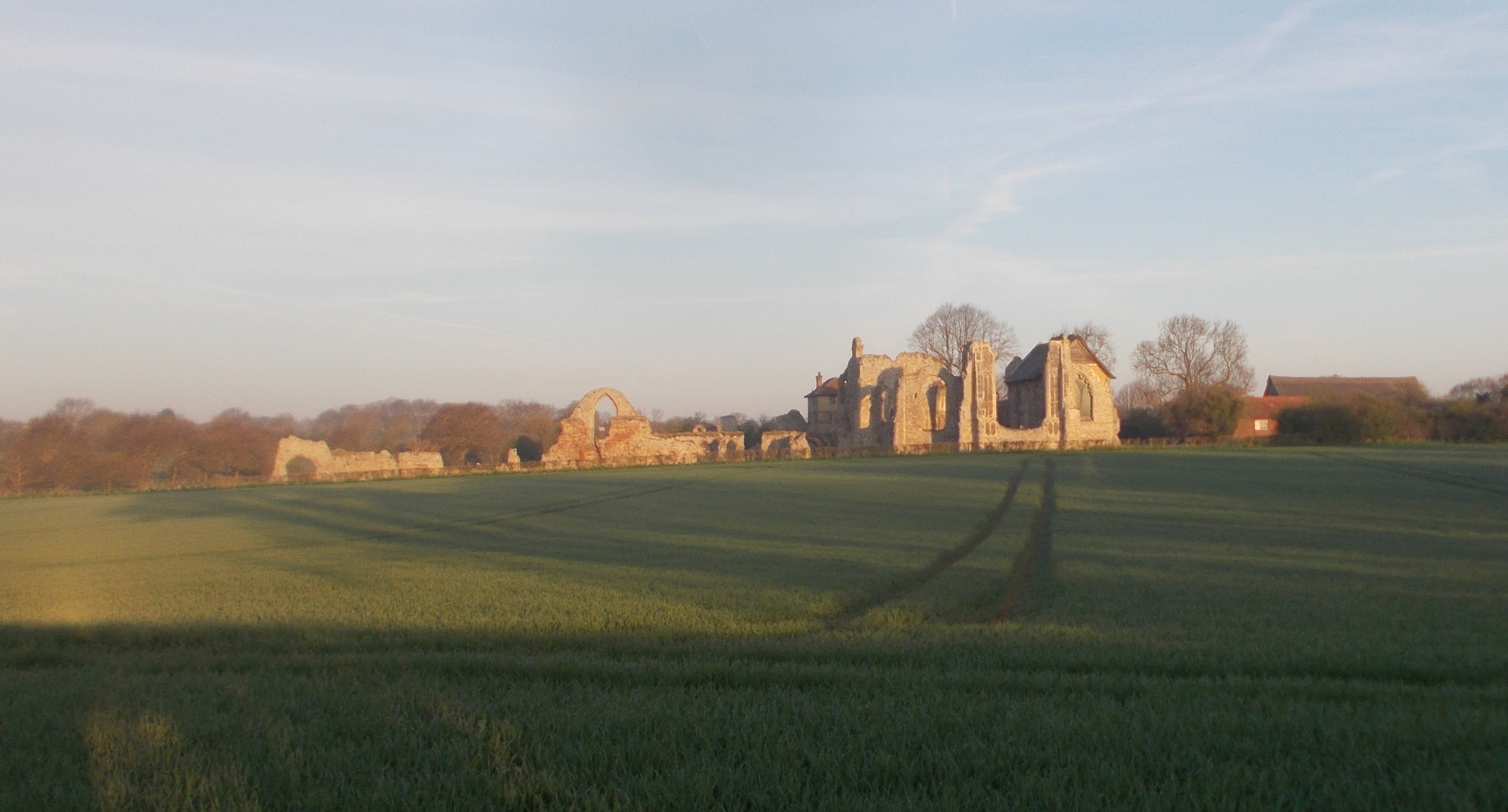 Leiston Abbey at dawn, March 2018, seen from south-east (Theberton road)